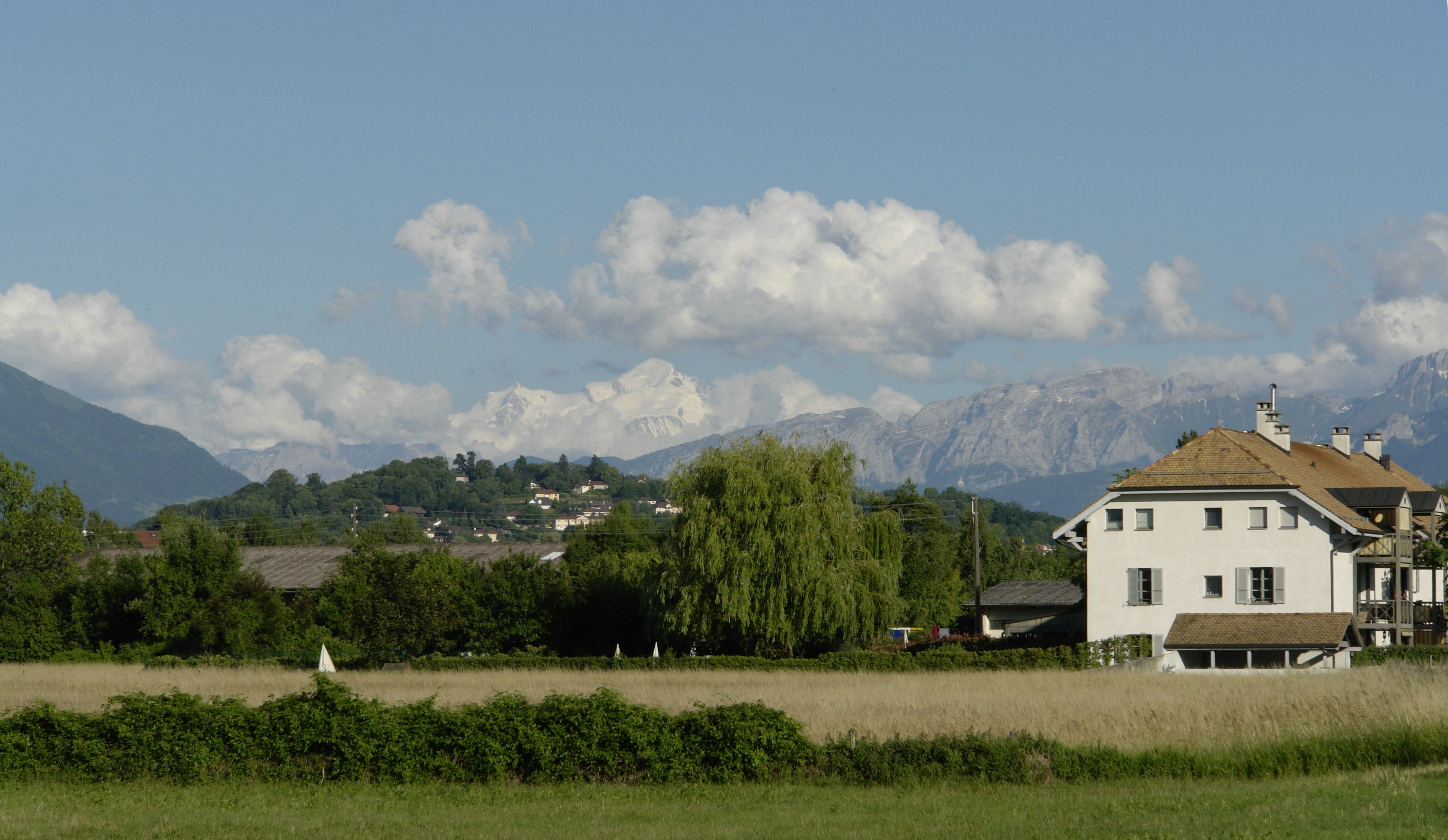 Mont-Blanc from Puplinge, Geneva, Switzerland (64 km).